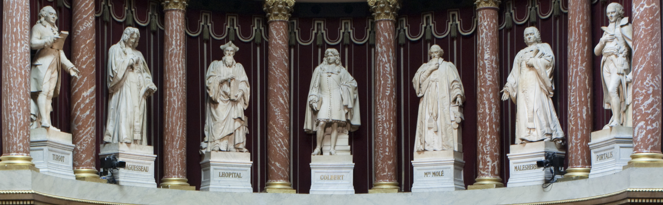 Seven statues of former French statesmen facing the semicircular amphitheater of the French Senate at the Palais du Luxembourg (from left to right: Turgot, d'Aguesseau, l'Hôpital, Colbert, Molé, Malesherbes, Portalis)